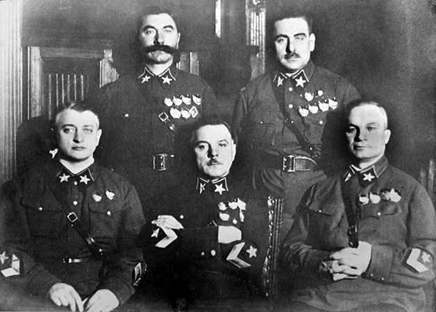 First five Marshals of USSR; Mikhail Tukhachevsky, Semyon Budyonny, Kliment Voroshilov, Vasily Blyukher, amd Aleksandr Yegorov.